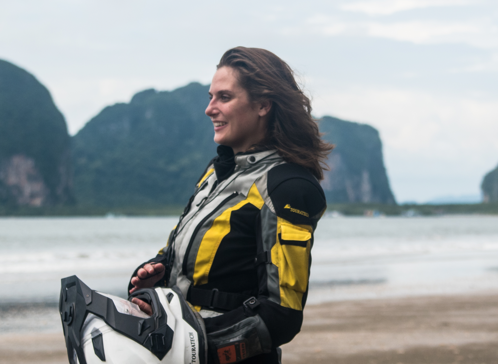 Motorcycle, Lea Rieck, Motorcycle Adventure Riding, Traveling, Author, Journalist